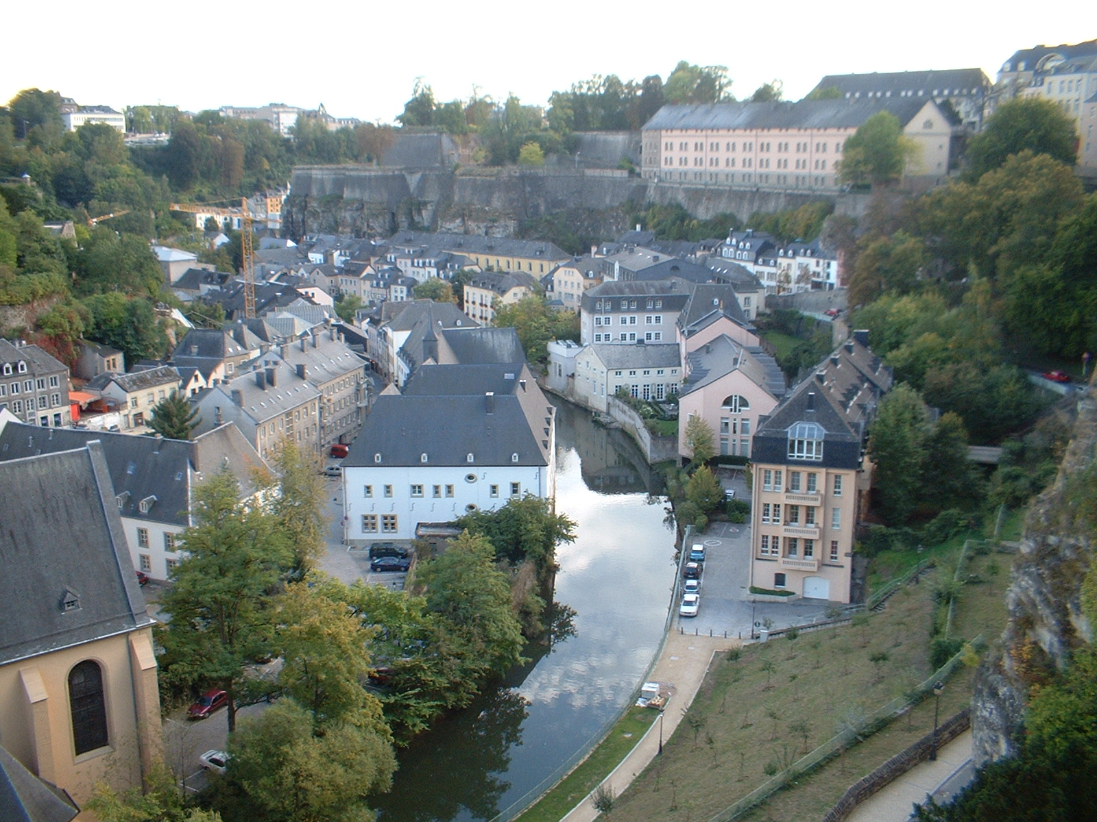 Luxembourg (City)